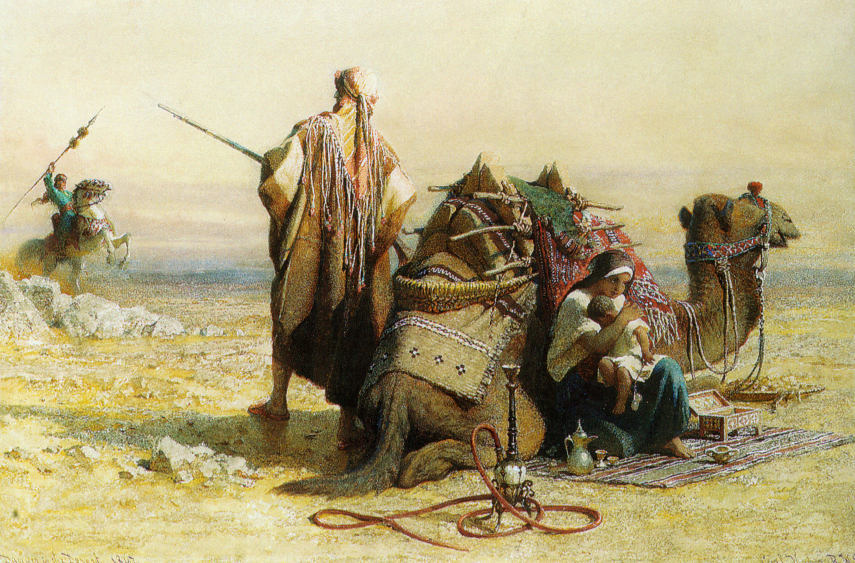 Danger in the Desert